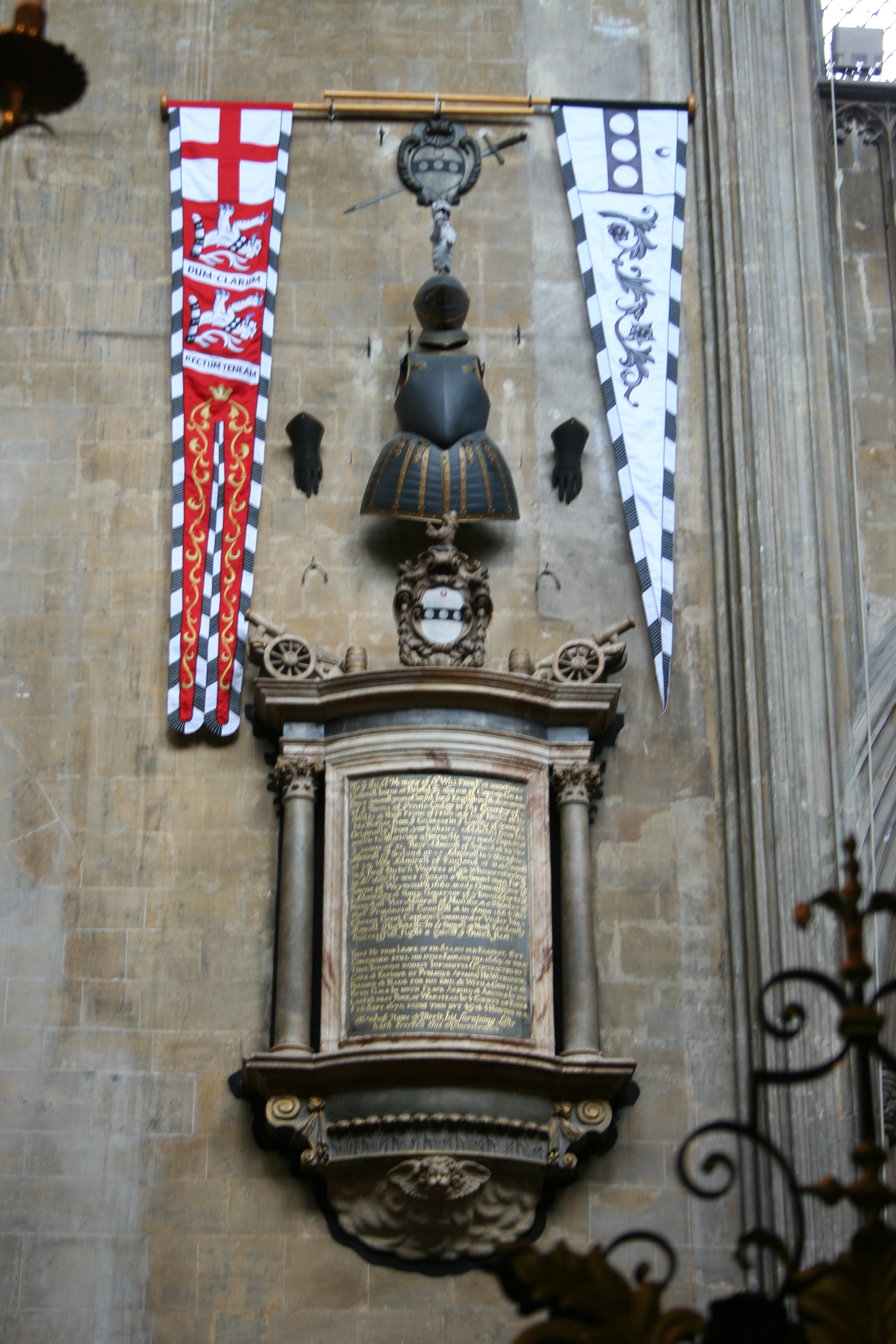 Monument and half-armour of Admiral Sir William Penn (died 1670) in the parish church of St Mary Redcliffe, Bristol, England